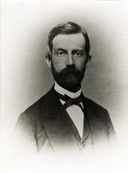 Paul Richard Thomann (1827-1873), german architect and town master mason of the City of Bonn